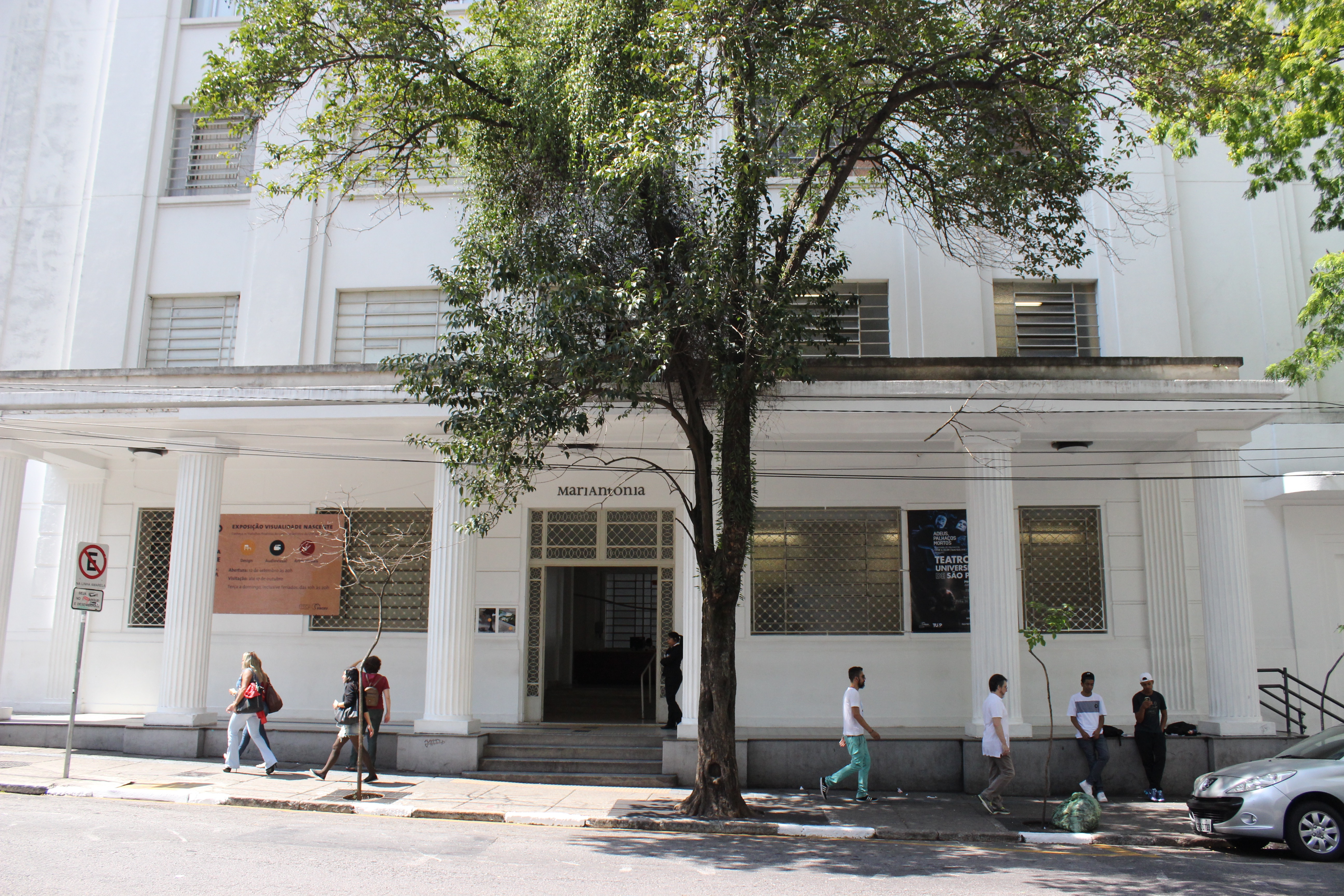 Façade of the building.